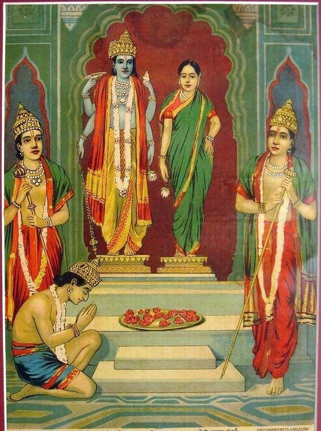 Ravi Varma Litho LAXMI NARAYANA Vishnu Laxmi 13537 Ravi Varma Press Unmatted Size: 10in x 14in CONDITION: sl staining on top visible. Matted. Condition as per the scan.